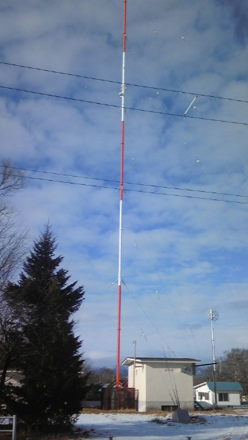 NHK Nakashibetsu Radio Broadcast Relay Station